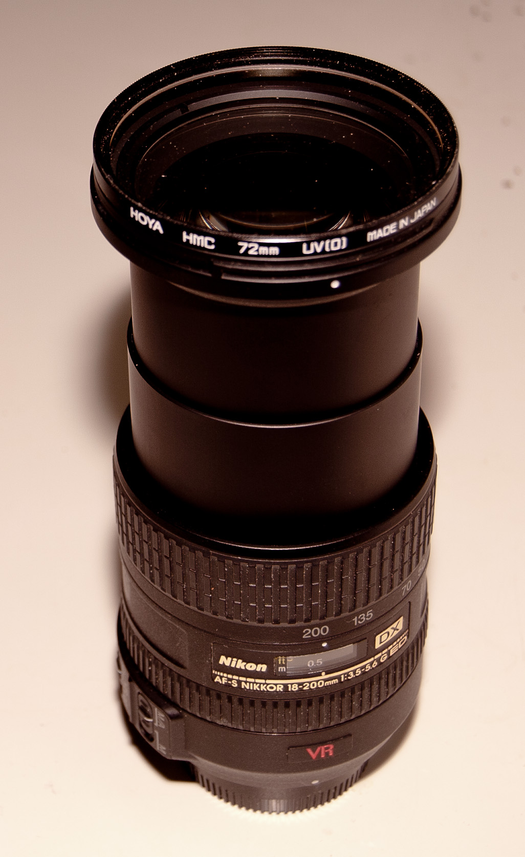 AF-S DX VR Zoom-Nikkor 18-200mm f/3.5-5.6G IF-ED partially extended barrel.